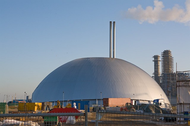 Marchwood Incinerator Seen from North Road, Marchwood Industrial Park. Marchwood Incinerator is more correctly termed Marchwood Energy Recovery Facility, since it burns waste and generates upto 14 MW of electrical power for the national grid (see Marchwood ERF in ). According to Hampshire County Council the building is dome-shaped for aesthetic reasons - because it helps to make the incinerator more acceptable to the public - at an additional capital cost of 25%. The chimneys at right are part of the unrelated Marchwood Power Station, under construction.